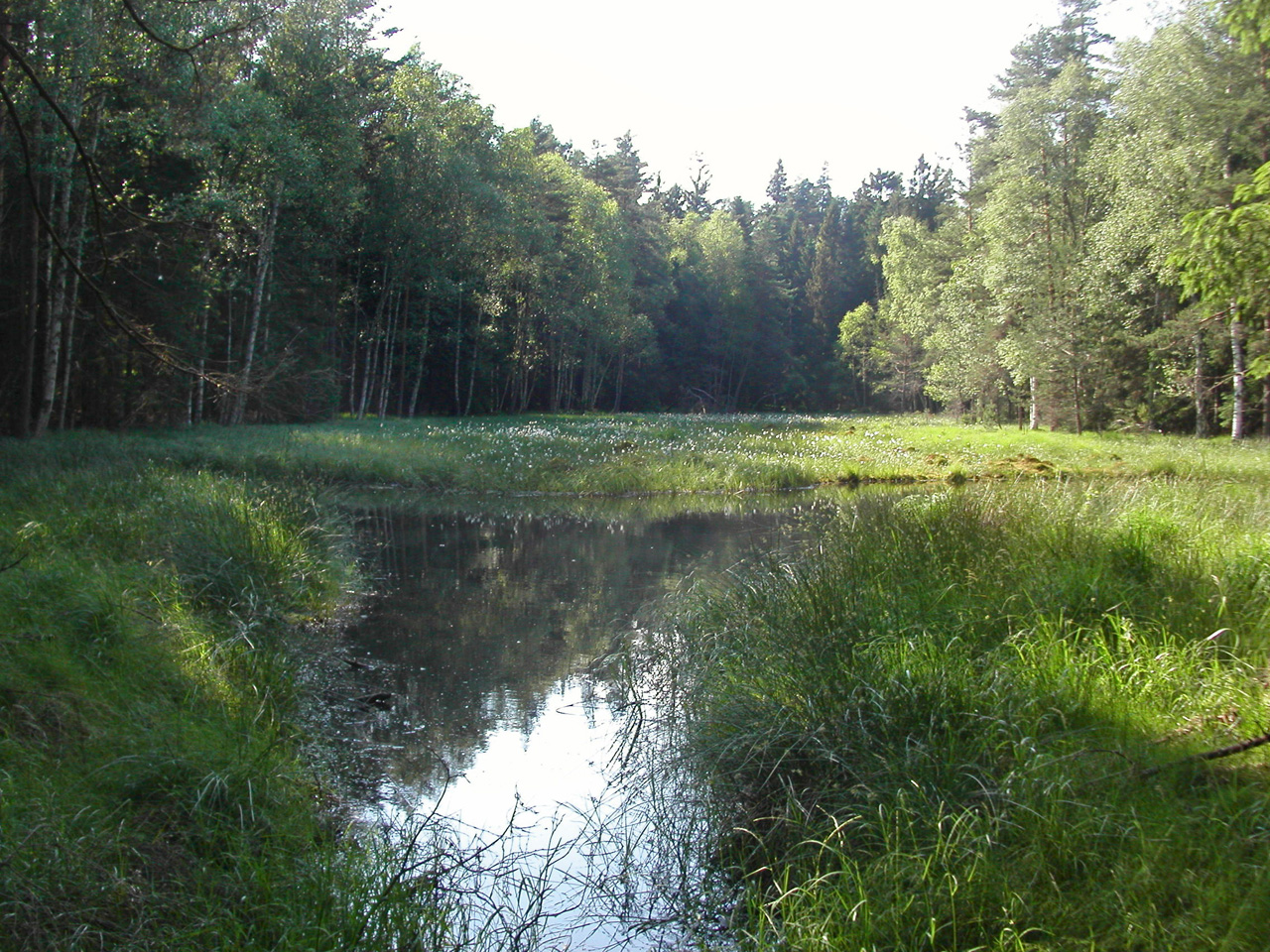 A general view at the Jezírka u Rozvadova Nature Reserve